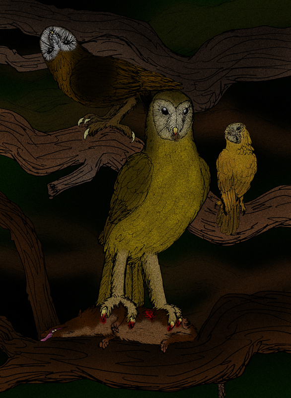 Reconstruction of the eagle-owl-sized barn owl, Tyto gigantea, of Late Miocene Gargano. (C) Stanton F. Fink